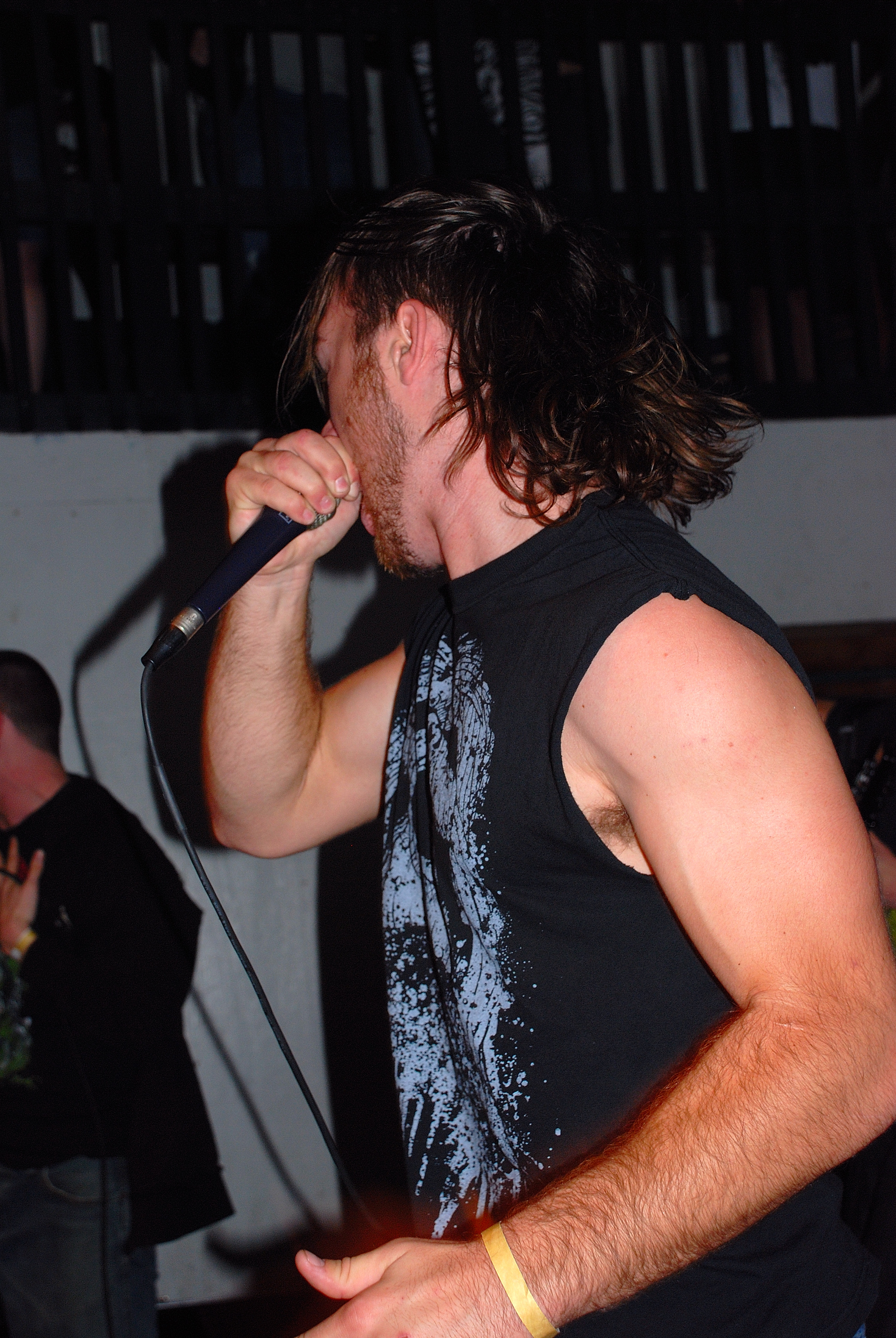 Brook Reeves from Impending Doom live at a concert in 2007.